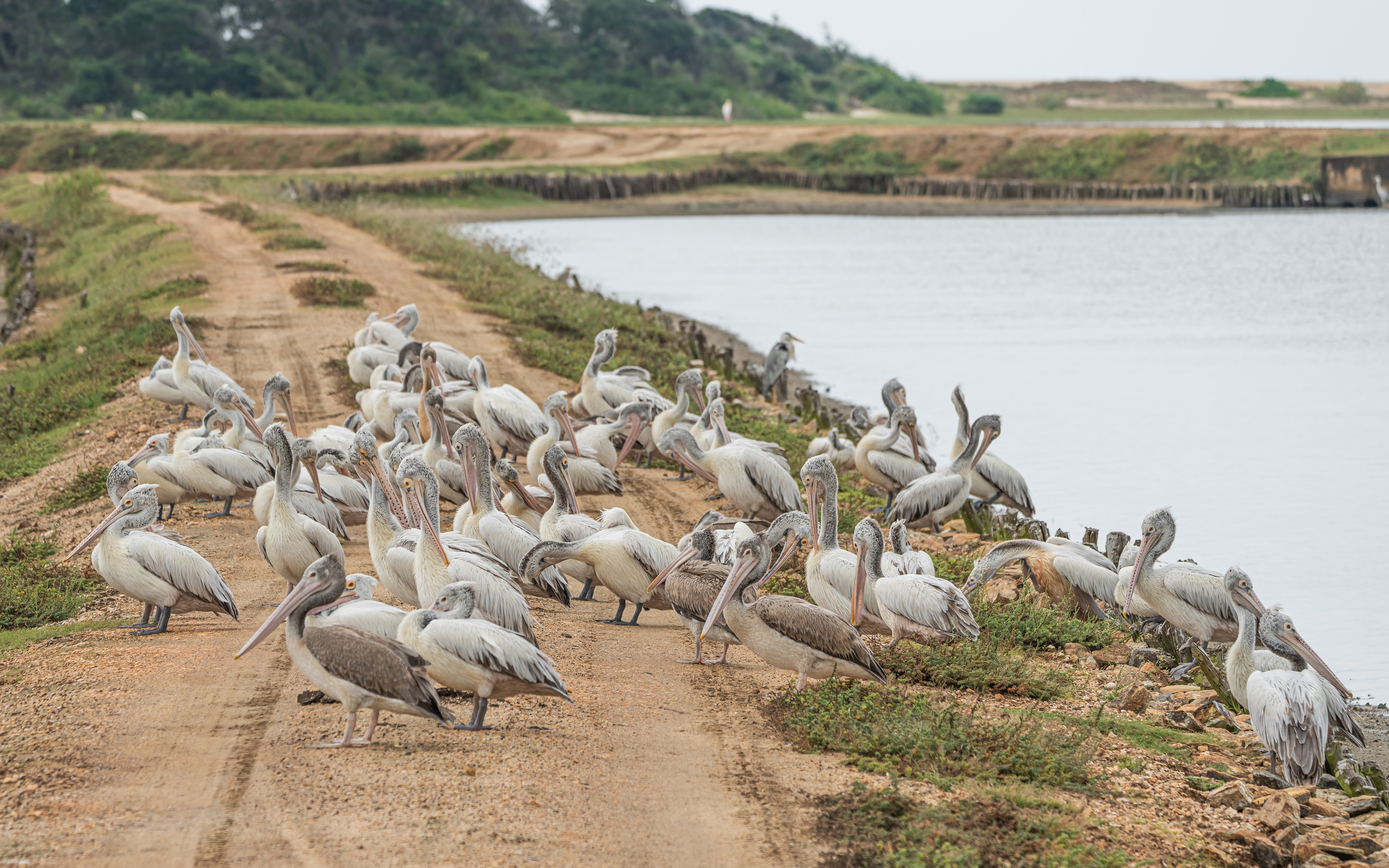 Spot-billed Pelicans in Bundala National Park, Sri Lanka